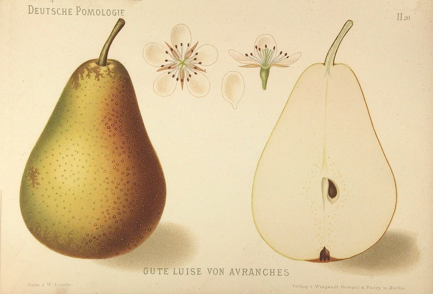 Page 26 from Deutsche Pomologie — Birnen, by Wilhelm Lauche, 1882. Published by Deutsche Pomologen-Vereins (German Pomological Society). Part of a series from the same book. The others can be found in Category:Deutsche Pomologie - Birnen Depicted pear cultivar: Gute Luise von Avranches